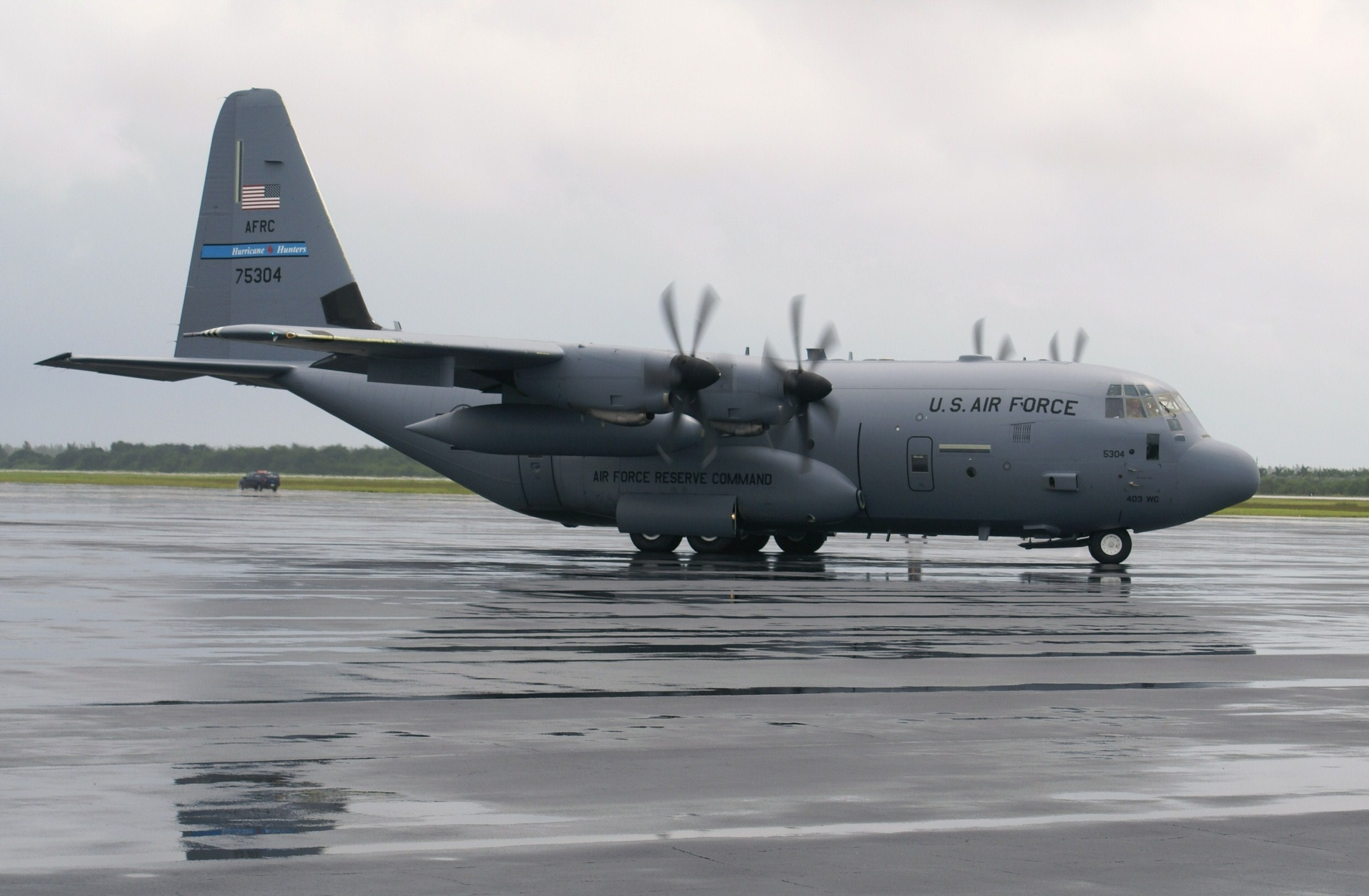 US Air Force WC-130J aircraft 75304 and reservists from the 403rd Wing at Keesler Air Force Base, Miss., fly daily weather reconnaissance missions into Hurricane Gustav and Tropical Storm Hannah from Homestead Air Reserve Base, Fla. The Hurricane Hunters aid the National Weather Service in providing the storms' projected path to the American public and are the only operational unit in the world flying weather reconnaissance on a routine basis.